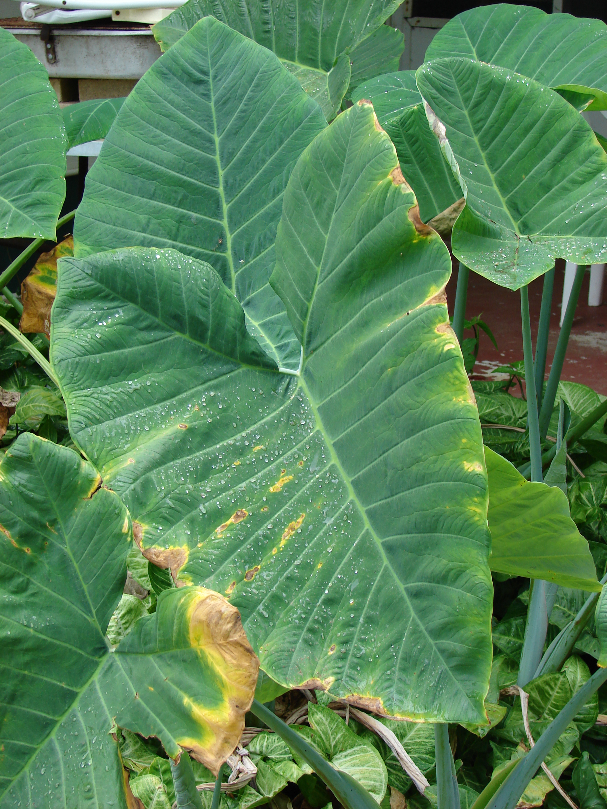 Xanthosoma robustum (leaves with rain drops). Location: Midway Atoll, Midway House Sand Island